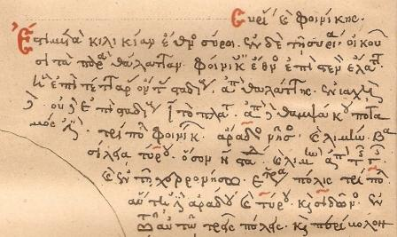 Facsimile of part of the 13th-century Greek text manuscript, Periplus of Pseudo-Scylax, made in 1855, from P. A. Poulain de Bossay, Recueil de voyages et de mémoires, 7 97-8